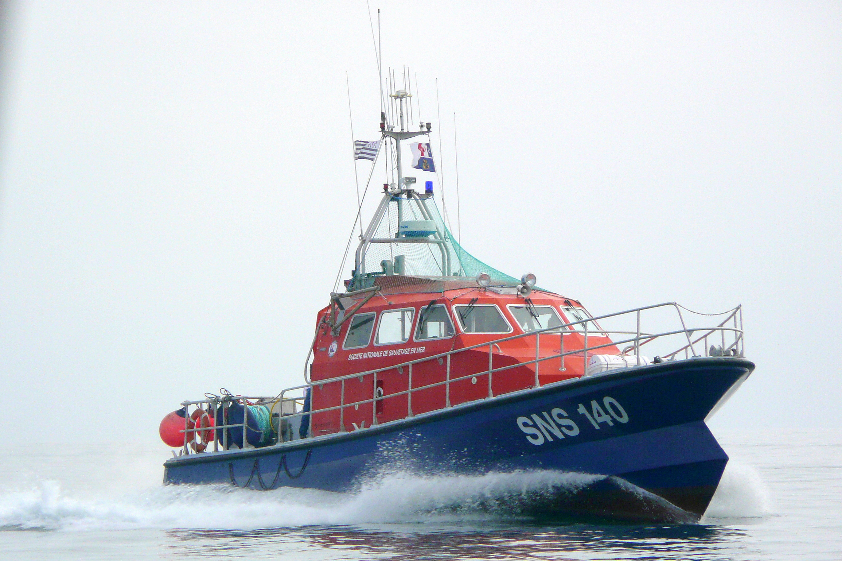 Search and Rescue Boat of the harbour of Loctudy (Bretagne, France)